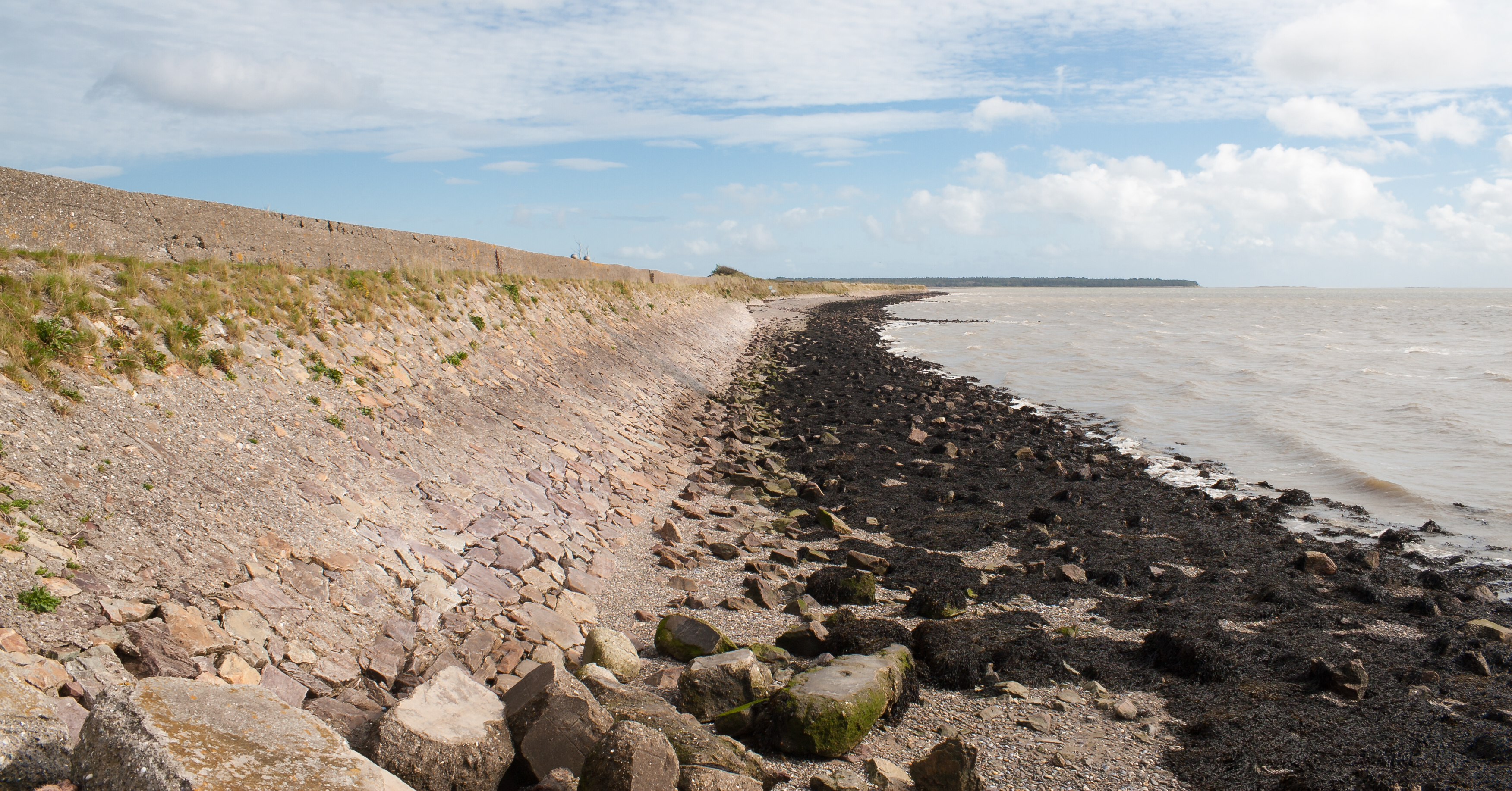 Seewall of North Slob in County Wexford.